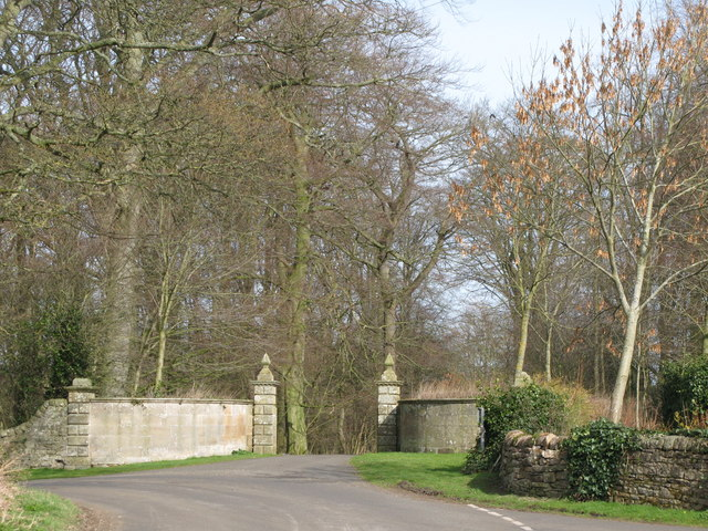 The entrance to Walwick Grange